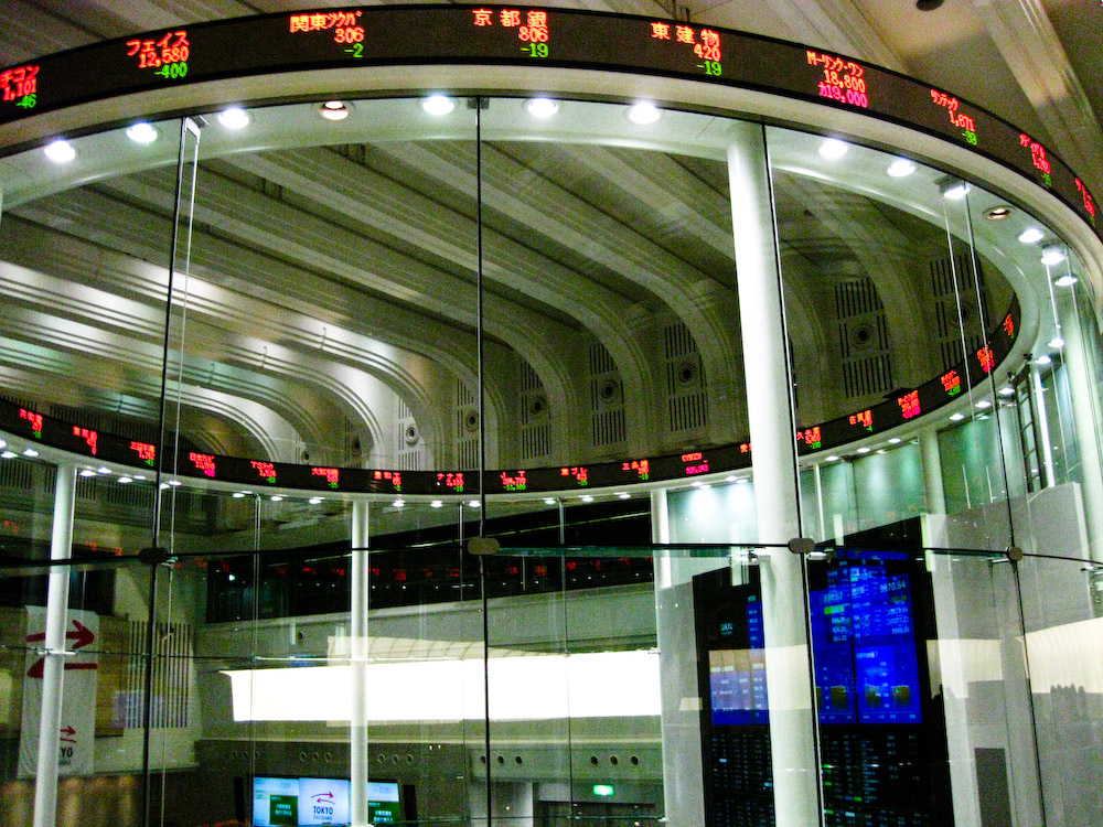 Tokyo Stock Exchange's so-called Market Center. The real stock trading floor closed in 1999. In its place is now just a glass cylinder, a few screens and a silly ticker—something for clueless journalists to shoot when reporting on Japan's economy and stock market.